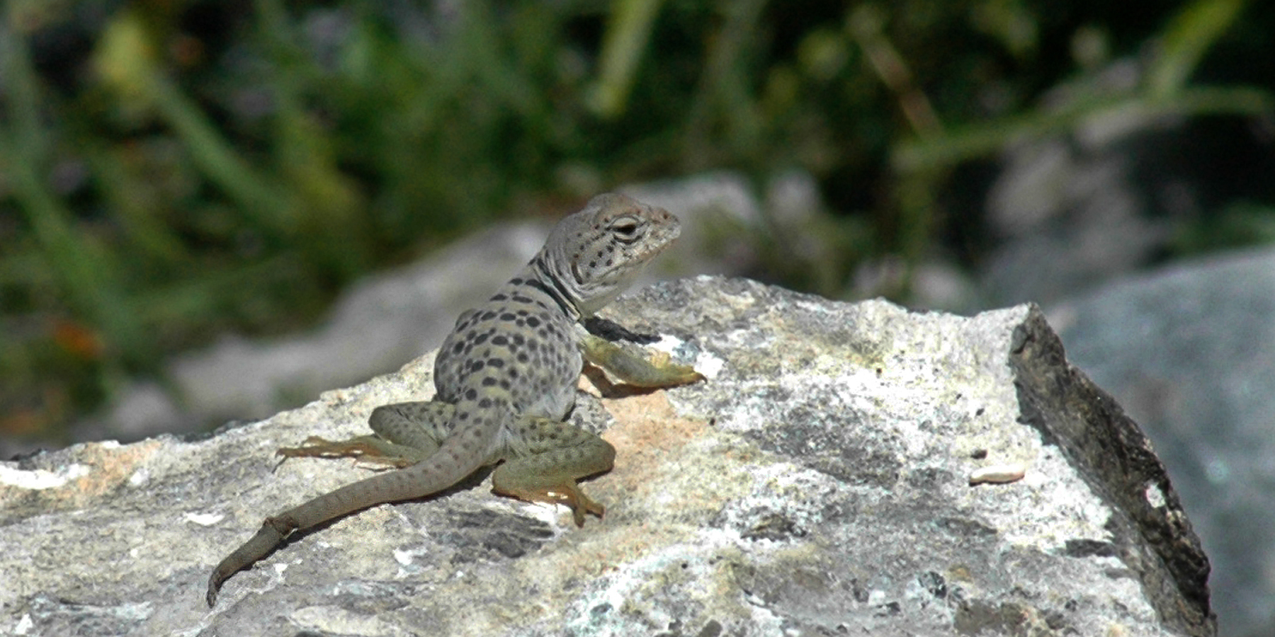 Eastern collared lizard (Crotaphytus collaris melanomaculatus), sub-adult photographed in situ, municipality of Miquihuana, Tamaulipas, Mexico. Photographed on 19 September 2007 by William L. Farr.